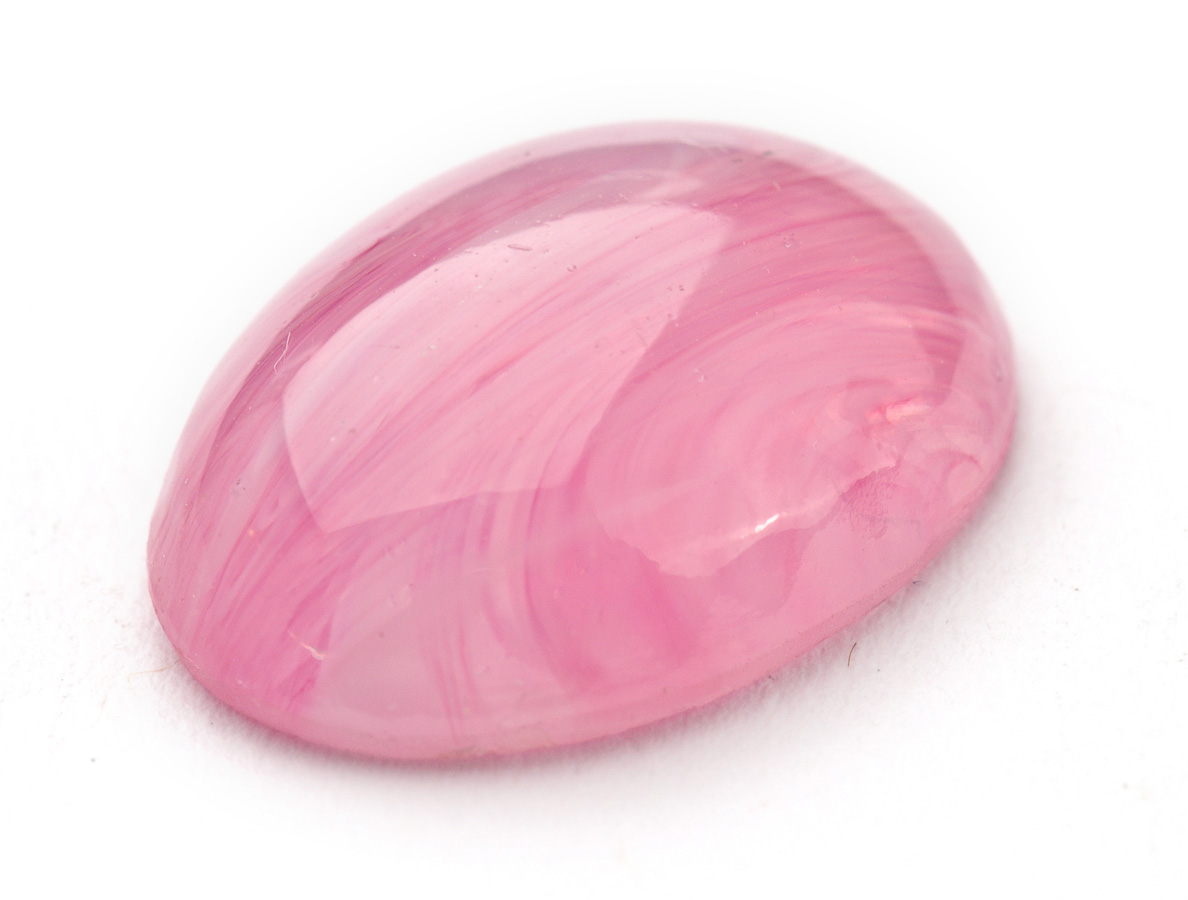 rose cuartez2